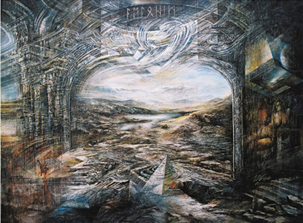 1 Painting Hacia el arcano (Towards the arcane) by Mauricio García Vega